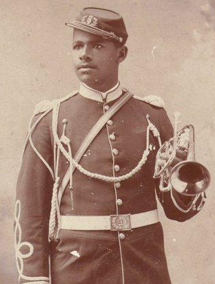 An early image of Walter Loving in U.S. Army uniform, probably from the early 1890s.